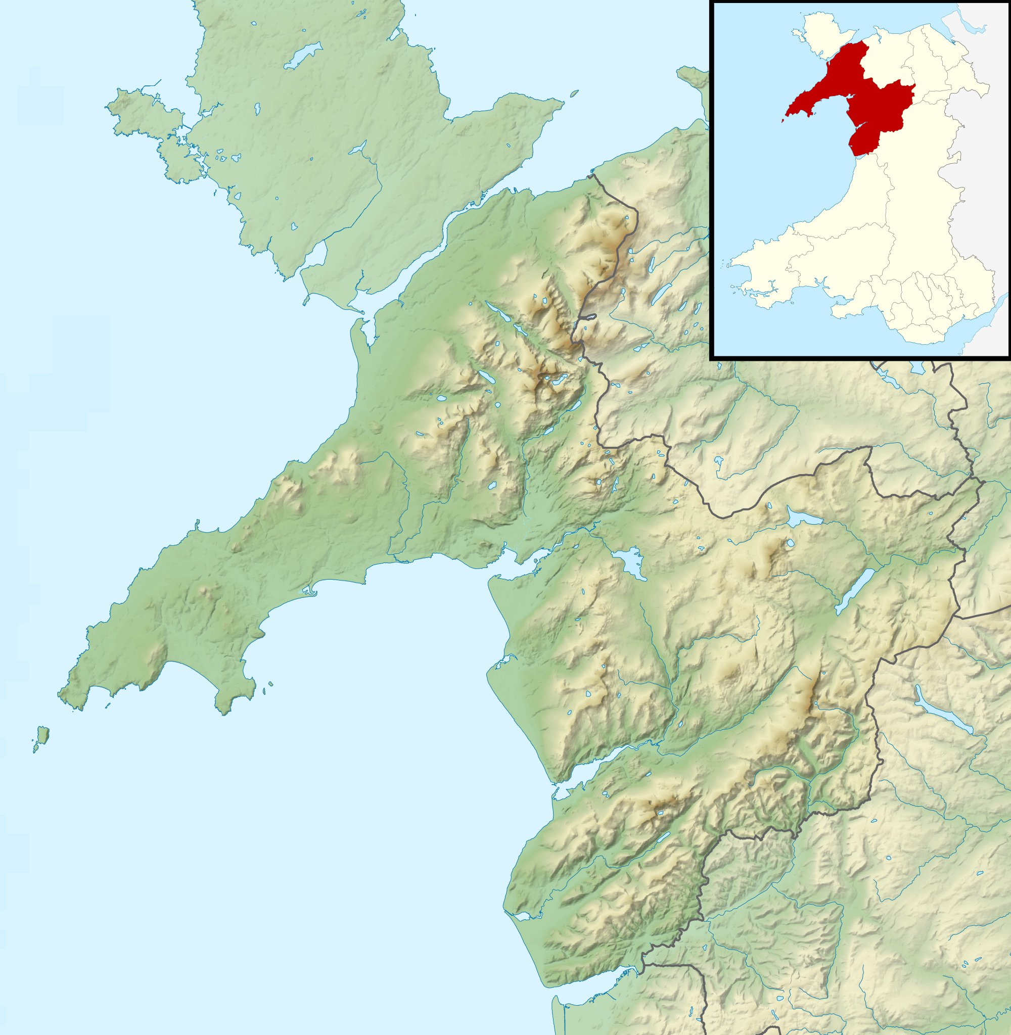 Relief map of Gwynedd, UK. Equirectangular map projection on WGS 84 datum, with N/S stretched 165% Geographic limits: West: 4.85W East: 3.4W North: 53.4N South: 52.5N